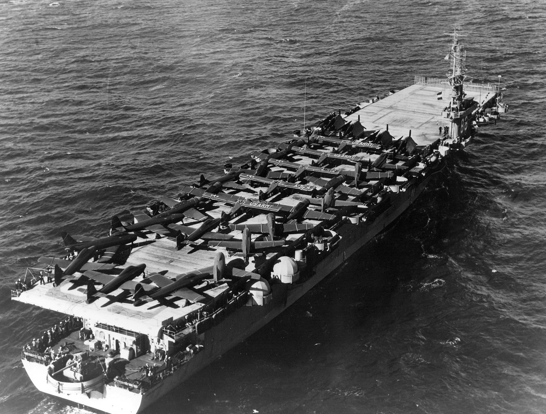 The U.S. Navy escort carrier USS Cape Esperance (CVE-88) underway en-route to Korea transporting aircraft. Visible are the following types: six Republic F-84 Thunderjet, two North American F-86 Sabre, eight North American T-6 Texan, four Lockheed F-80 Shooting Star, four Grumman F6F Hellcat and five De Havilland Canada L-20 Beaver.